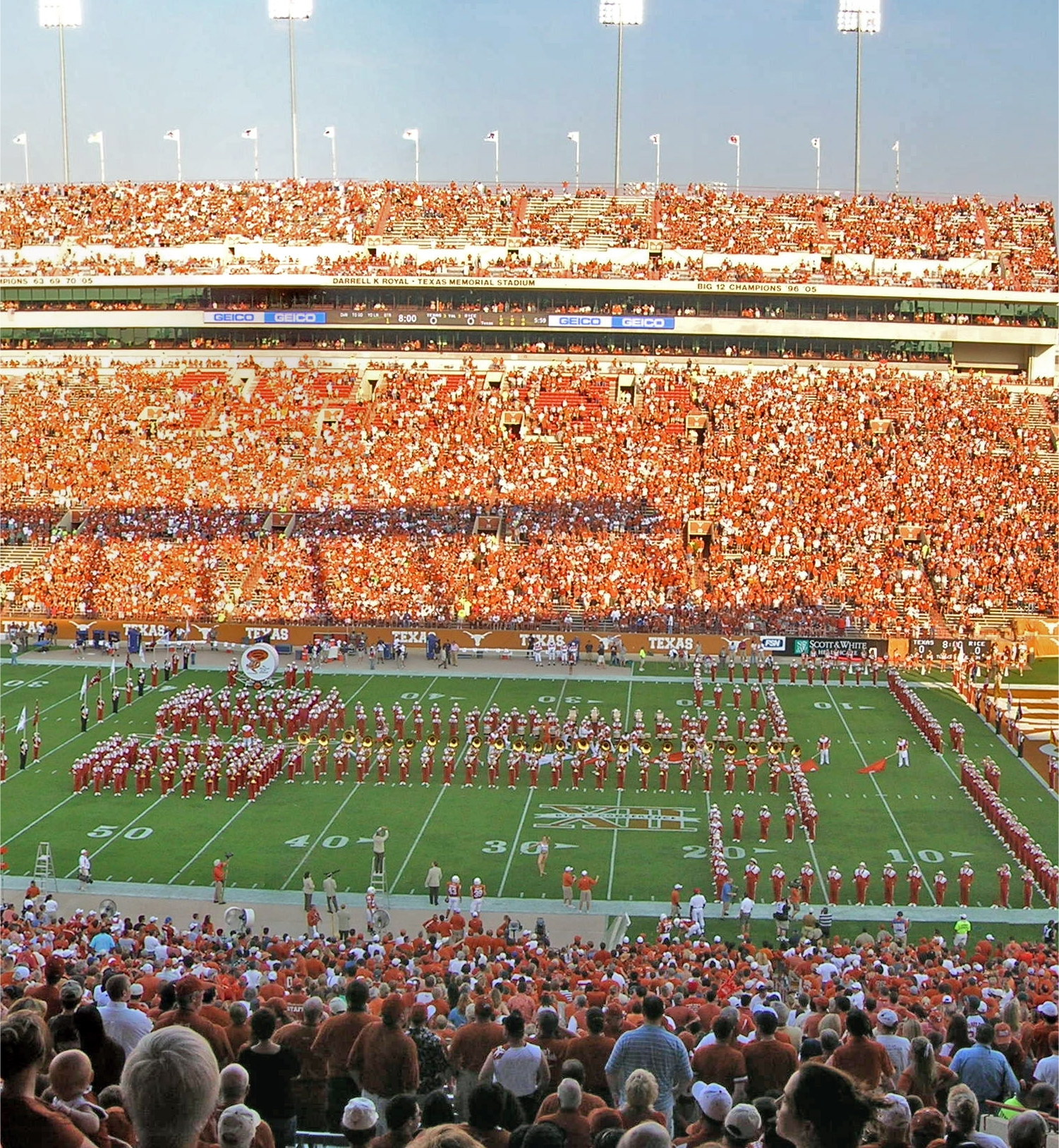 Cropped version of Image:UT-Rice-Panorama-092307-original.jpg. Please see the source image for a full description.